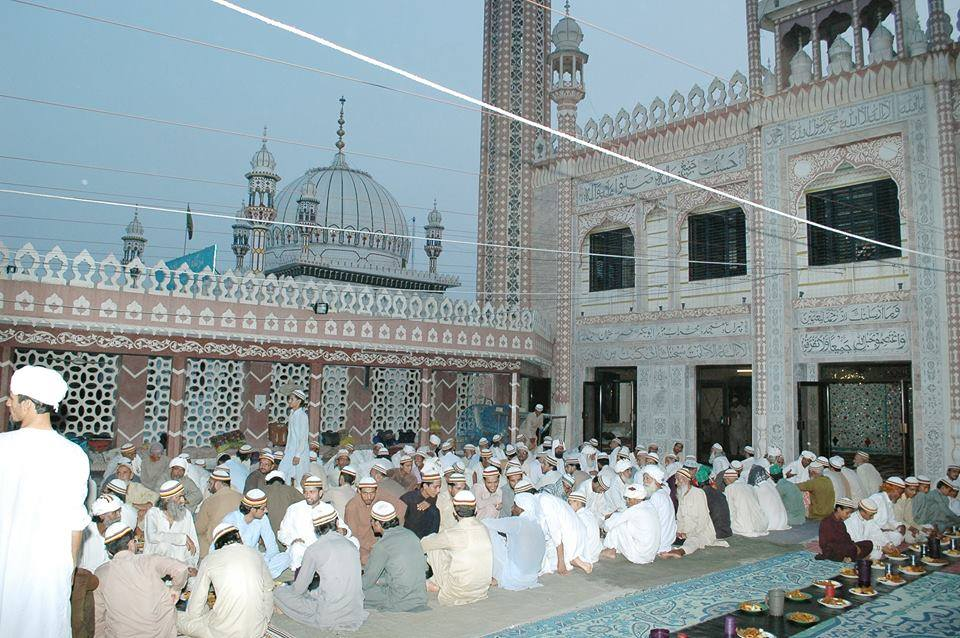 Golden Mosque Aastana Aaliya Naqeeb abad Qasoor Shareef. Followers of order gathered there during Ramadan Kareem for Aitekaaf.